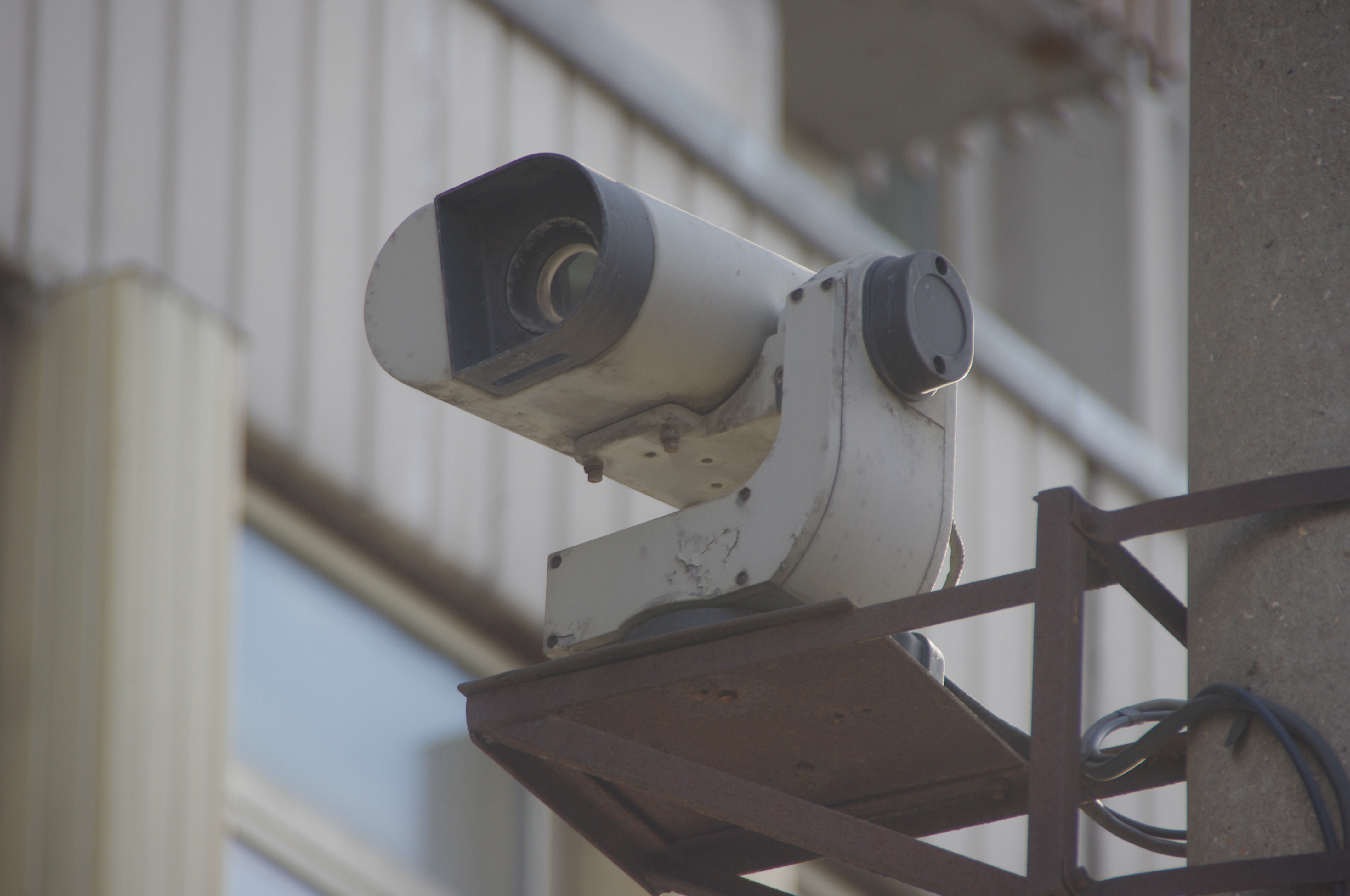 Soviet Motorised CCTV camera